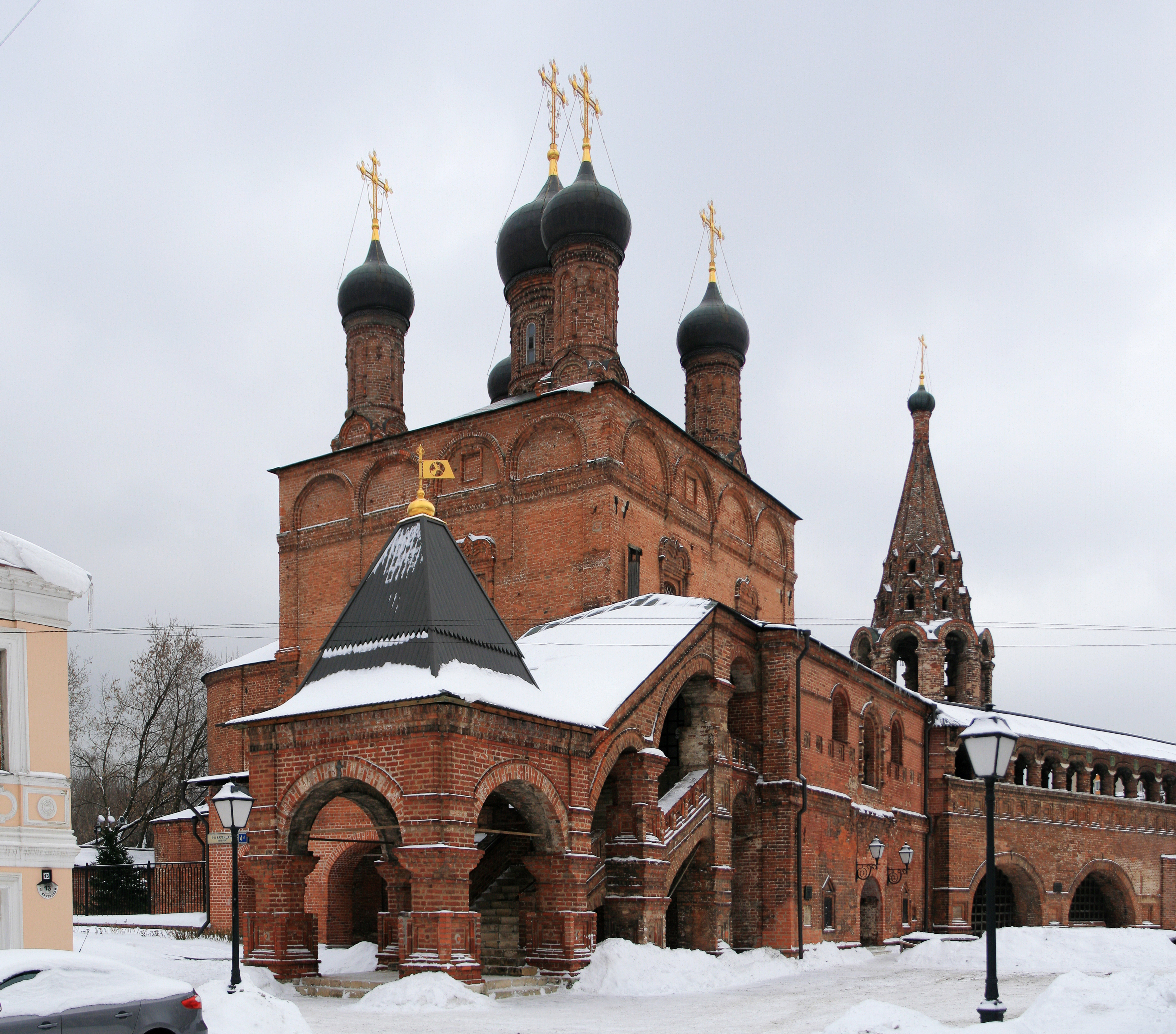 Cathedral of the Dormition of the Theotokos, Krutitsy Metochion, Moscow, Russia